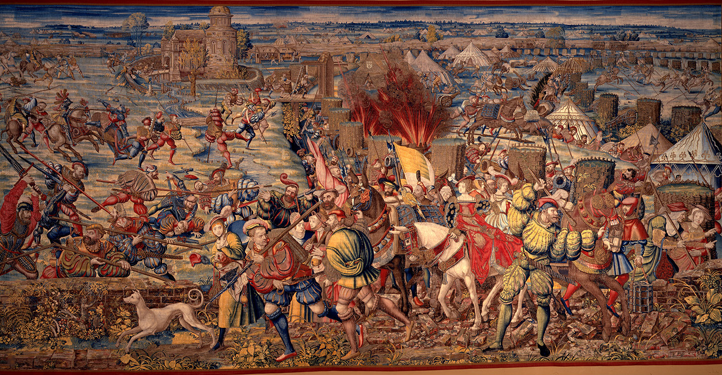 manufactured in Bruxelles